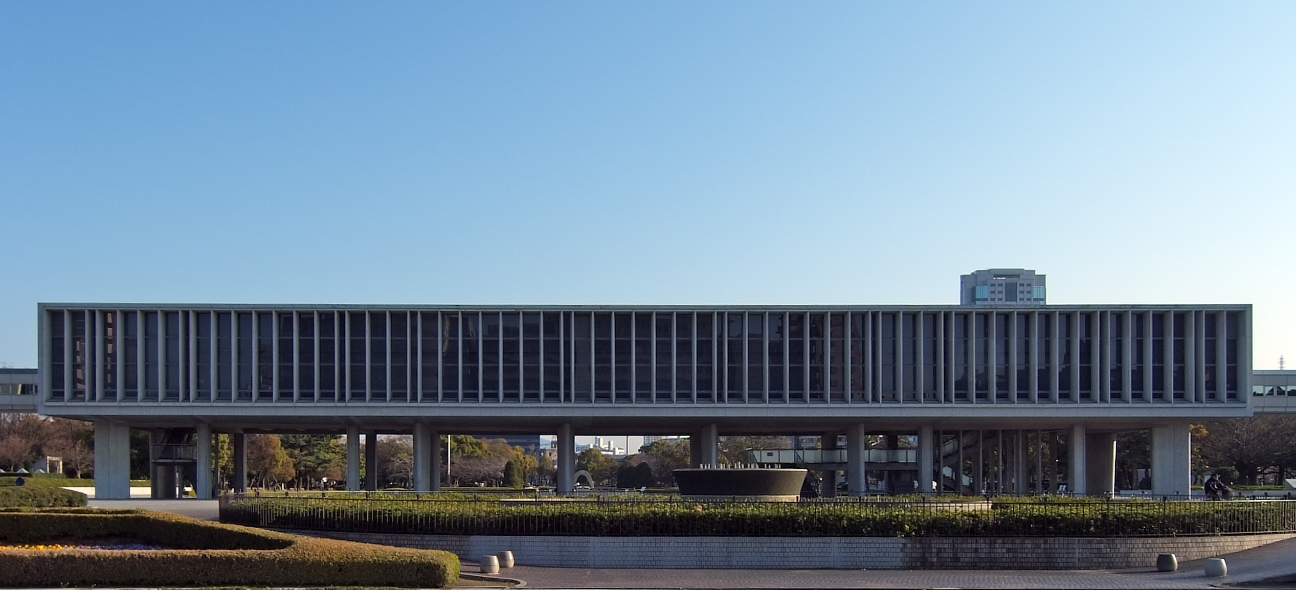 Hiroshima Peace Memorial Museum, at Naka-ku Hiroshima Japan, design by Kenzo Tange in 1955.